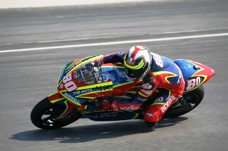 Hector Barbera in 2007 Italy Grand Prix